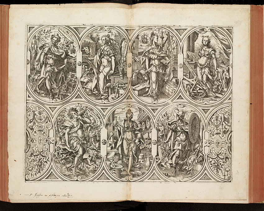 Barthelemy de Chasseneux (1480 – 1541), Catalogus Gloriae Mundi, printed by Sigismund Feyerabend, Frankfurt am Main 1579 (1 ed. Lyons 1527) Etching. The exhibited center spread shows the Glories of the plebeians: Agriculture, a goldsmith's work, commerce, architecture, hunting, surgery and "Tympanistria" , the art of drumming, here more likely referring to Martial arts. The illustrations, in typical mannerist style of high quality, have advanced allegorical layers of meaning. The picture of the Hunt can be directly derived from Margarita Philosophica from 1503 and is a veiled tale of hte different methods of Philosophy. The combination of allegorical figures has also in this case alchemistic connotations, while they starting with Ripa 1600 increasingly become part of the emblematic standard repertoire.